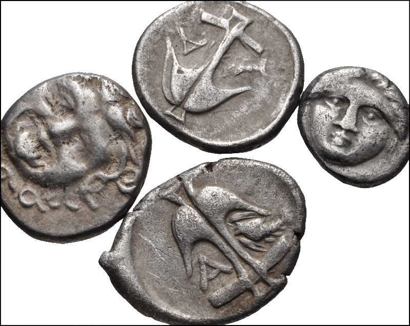 GREEK. Northern Greece. Lot of four (4) silver coins of Apollonia Pontika in Thrace. Includes: AR Drachm. Facing gorgoneion / Anchor; A to left, crayfish to right. SNG BM Black Sea 160 var. // AR Drachm. Facing gorgoneion / Anchor; crayfish to left, A to right. SNG BM Black Sea 162-3 (2) // AR Diobol. Facing gorgoneion / Anchor; E and A to left, crayfish to right. SNG BM Black Sea 168-76 var. Average Near VF, porosity. LOT SOLD AS IS, NO RETURNS. Four (4) coins in lot.; coin from Apollonia Pontica, the today city of Sozopol, Bulgaria